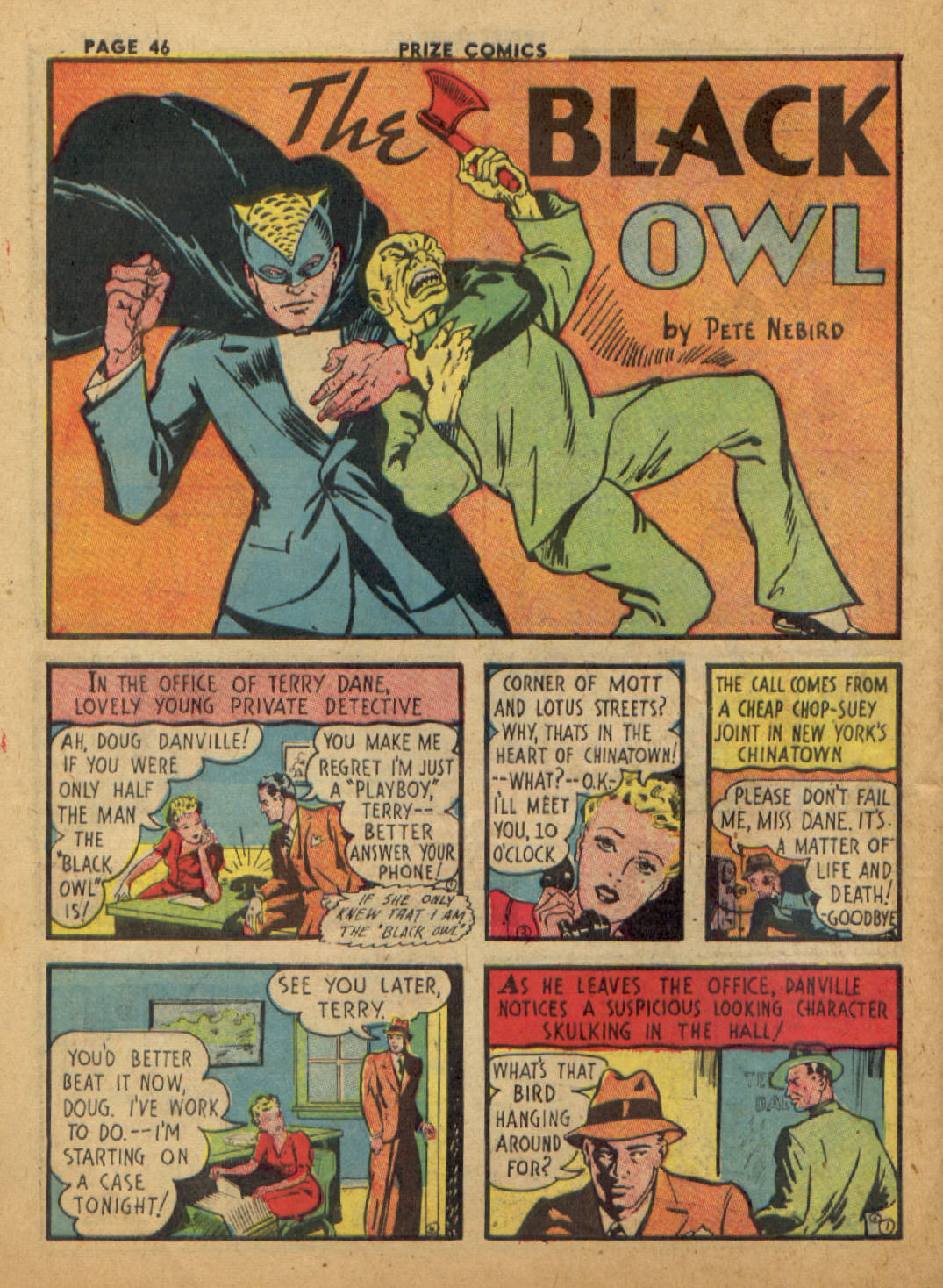 Page 46 of 'Prize Comics' issue #2 (April 1940